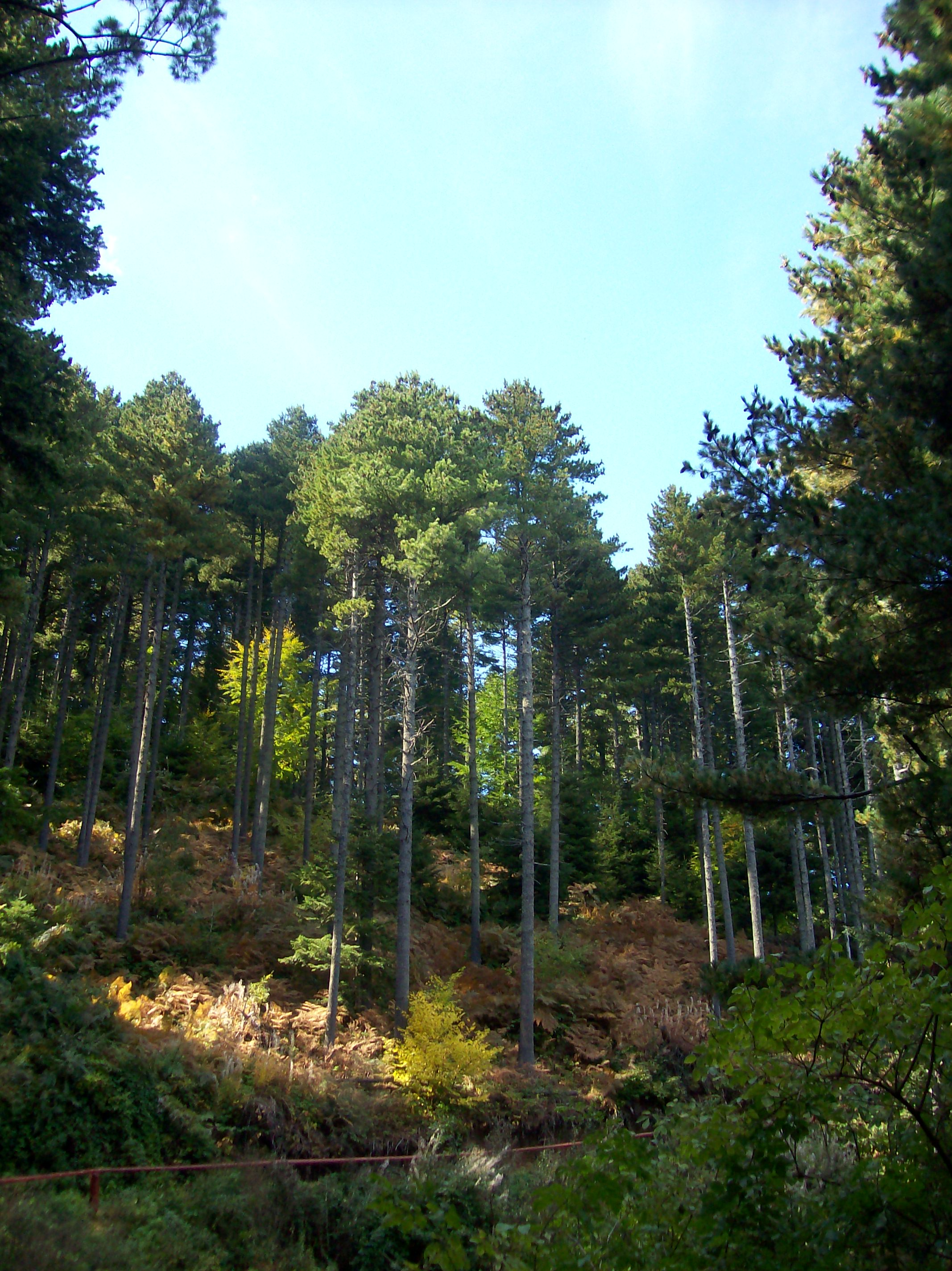 Pinus peuce, Pelister National Park, Macedonia